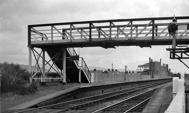 Bromfield (Salop) Station (remains). View SE, towards Hereford; Shrewsbury - Hereford main line (ex-Great Western & London & North Western). Station closed to passengers 9/6/58, for goods 15/6/64. (Ludlow Racecourse over on left).